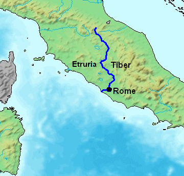 Location of Tiber river in Italy based on Image:Map of Italy (w.o. Labels).jpg